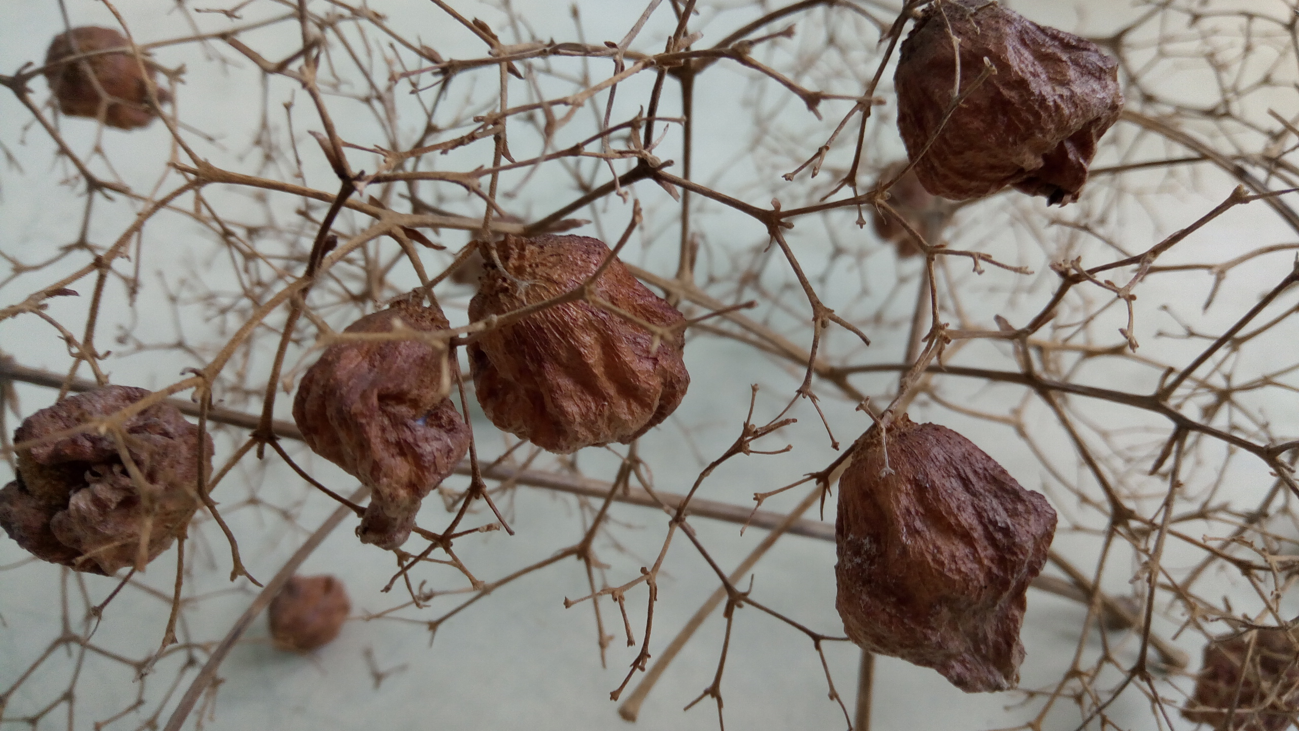 The fruits of a teak tree (Tectona grandis?). The several brown coloured fruits of this photo are very old and ripe.